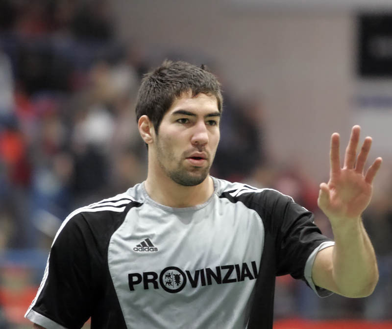 Nikola Karabatic, on December 30th 2006 in Aschaffenburg (Germany), during the warm-up prior the game TV Grosswallstadt - THW Kiel (25:30)